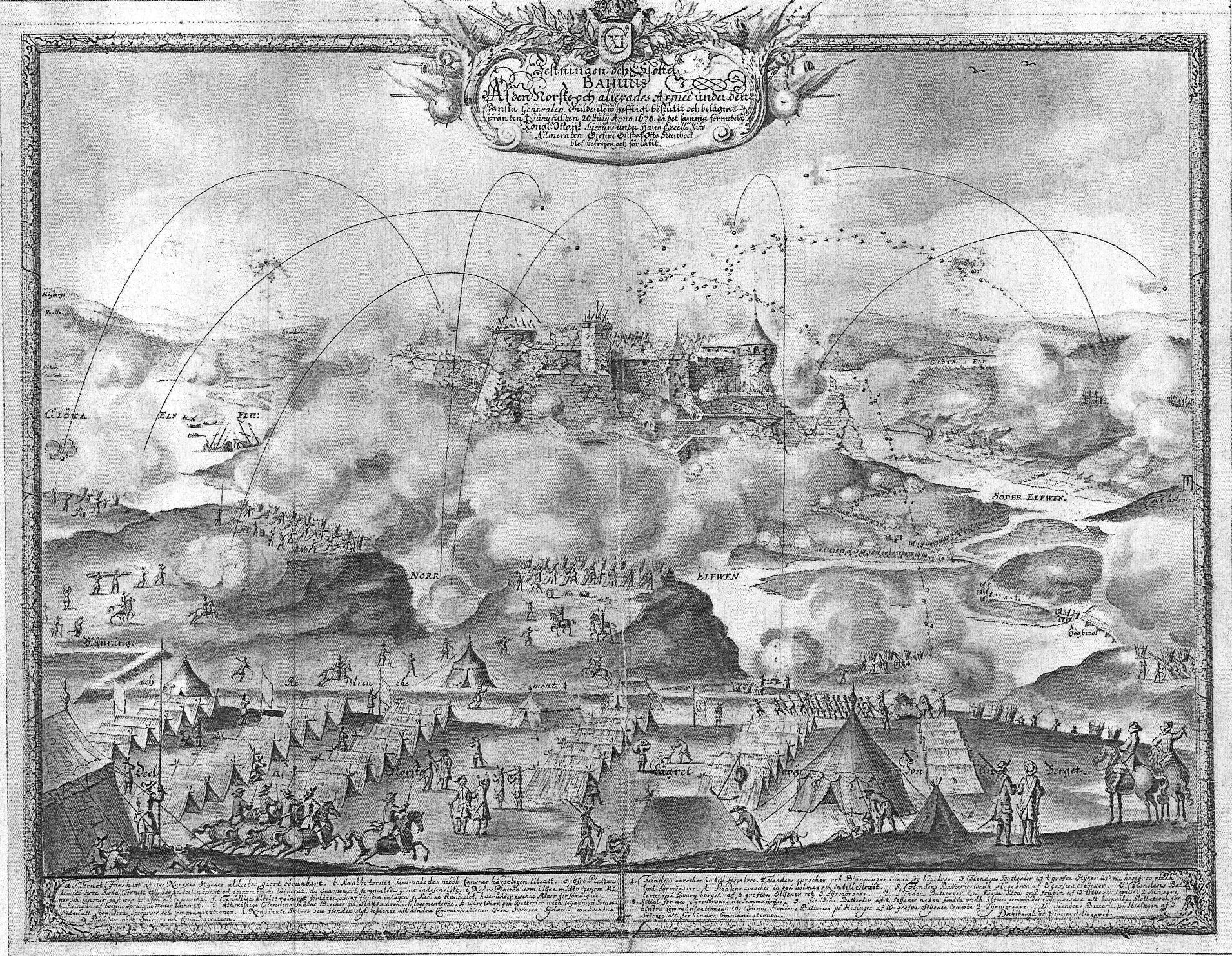 The Norwegian-Danish siege of the fortress Bohus in Sweden at 1678. Drawing by the Swedish field marshal Erik Dahlberg